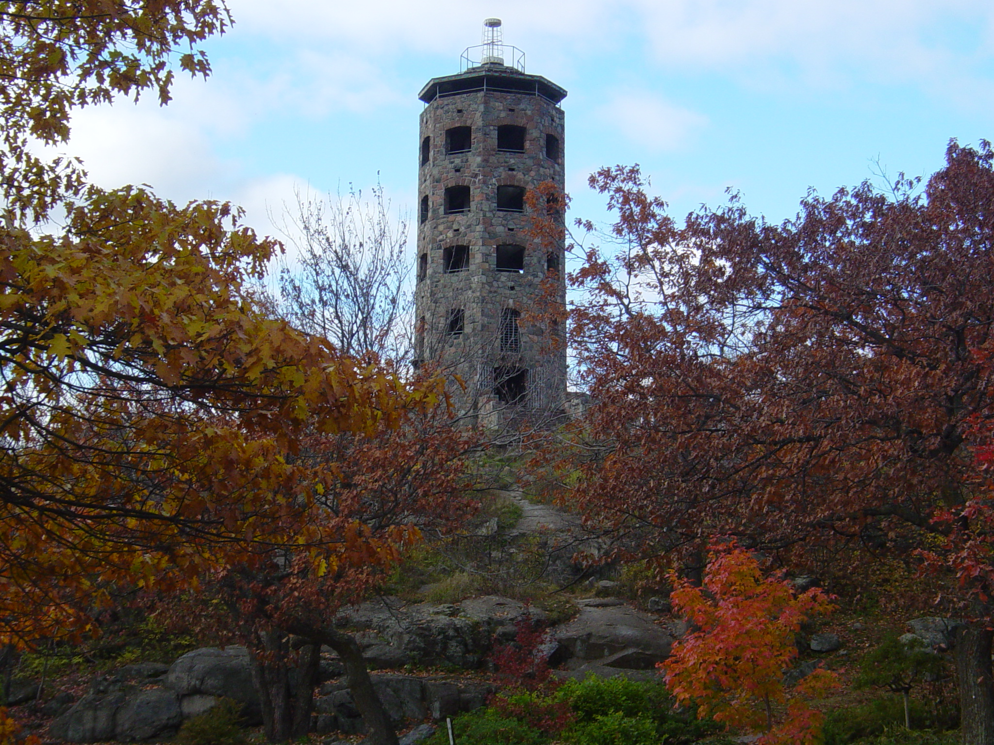 Picture taken by Jacob Norlund (jakes18 / jakes19), October 24, 2005 in Duluth, MN.